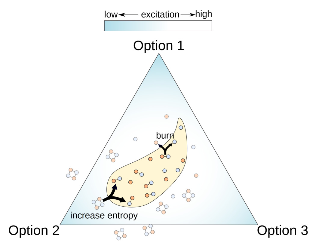 The GenI Process: A GenI swarm constantly sucks null rings from its environment and burns them randomly. The GenI process sets a gradient towards reducing the excitation. The swarm’s state finally arrives at one of the given options. (ref. "The Source of the Universe" ISBN 9783848223572 )